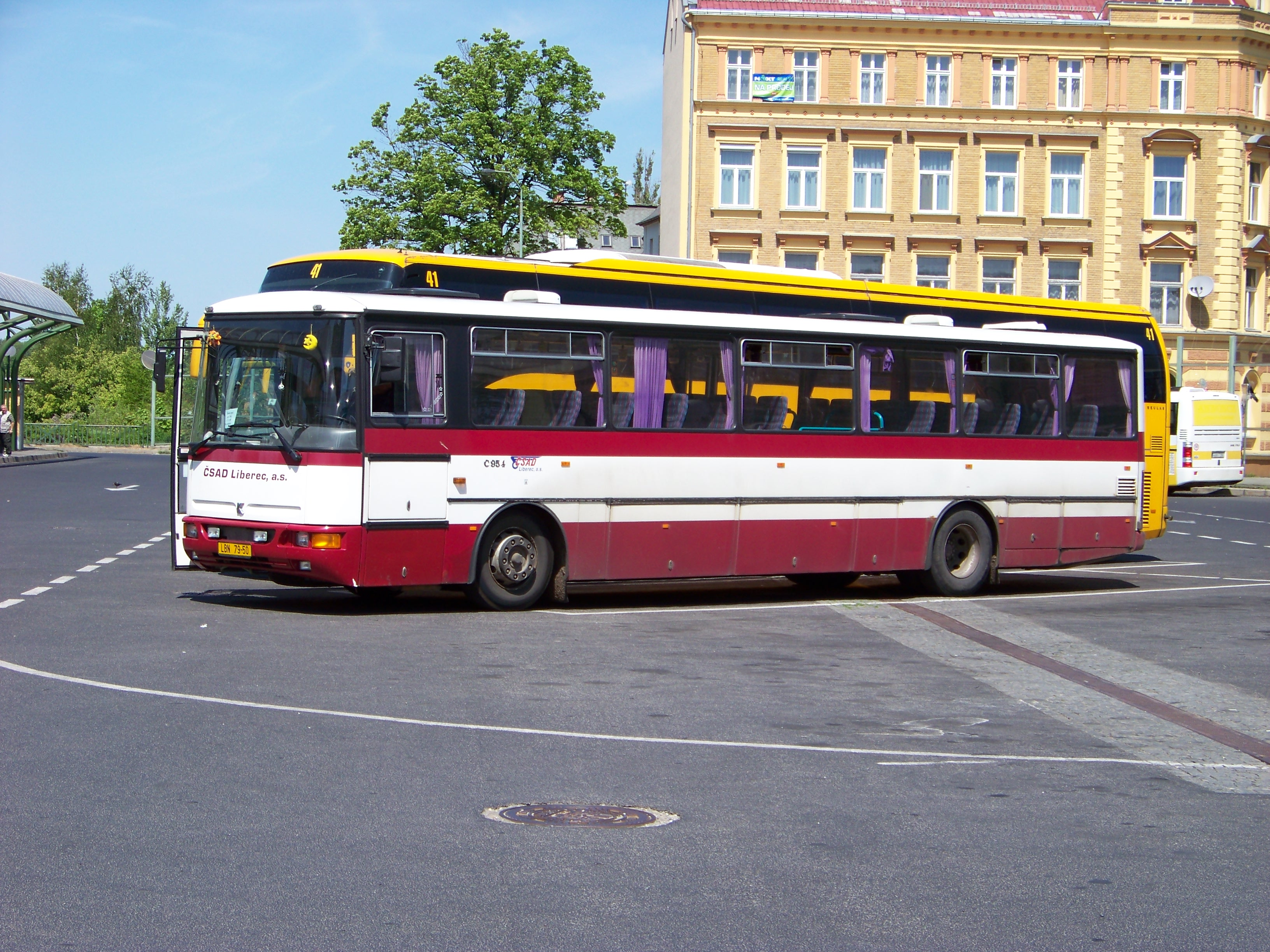 Liberec-Jeřáb, Liberec District, Liberec Region, the Czech Republic. A bus station, a bus of ČSAD Liberec. - OpenStreetMap(Info)